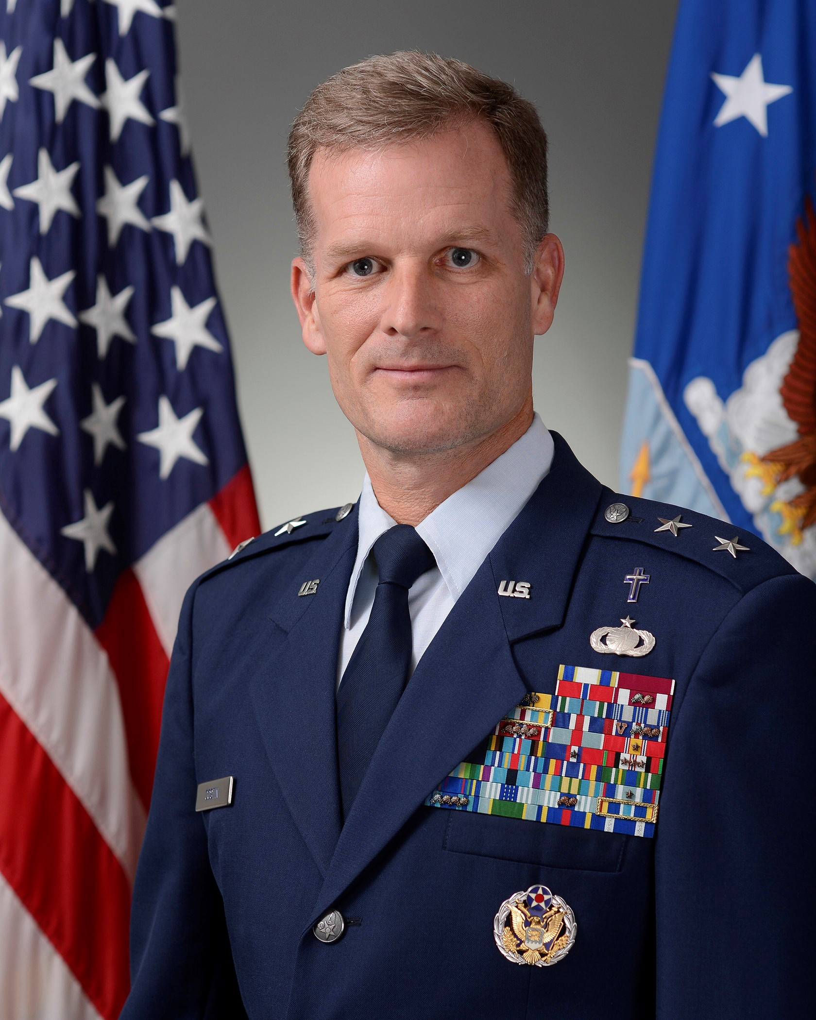 Latest official portrait of Costin